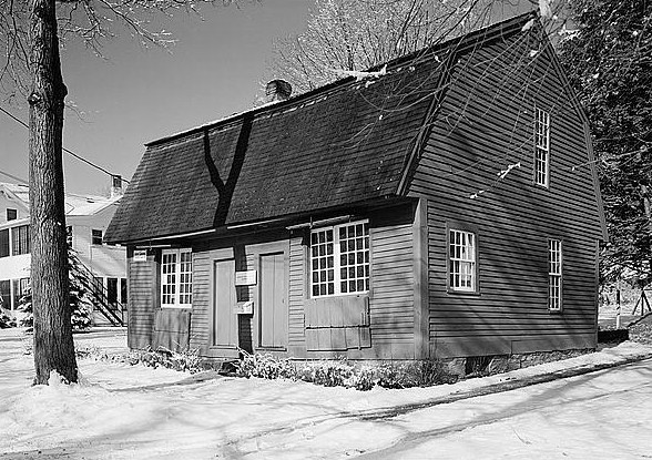 Joseph Carpenter Silversmith Shop, 71 East Town Street, Norwichtown (New London County, Connecticut), cropped from original